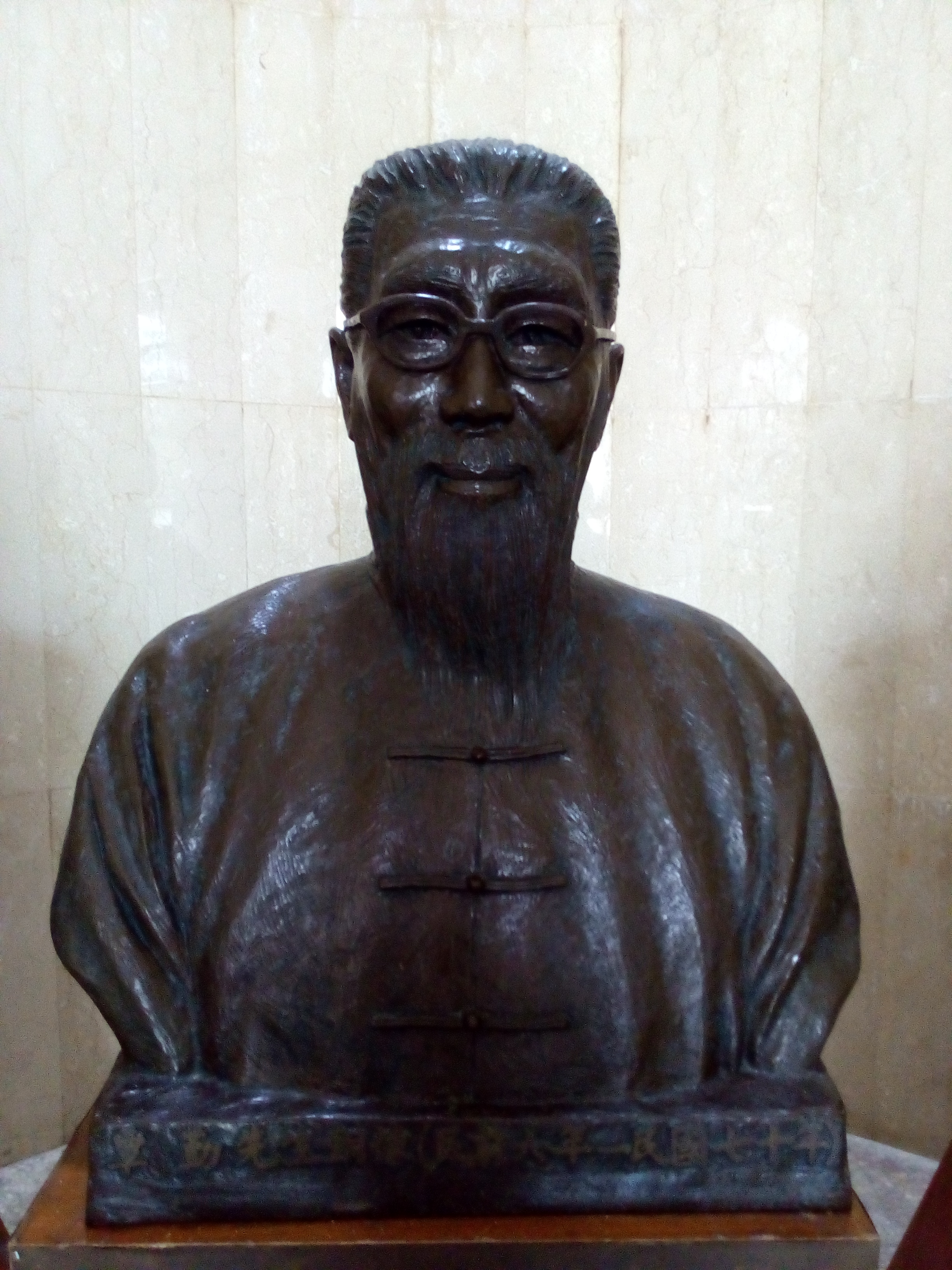 Statue of Dr. Chin Chin, one of the founders of China Medical College.